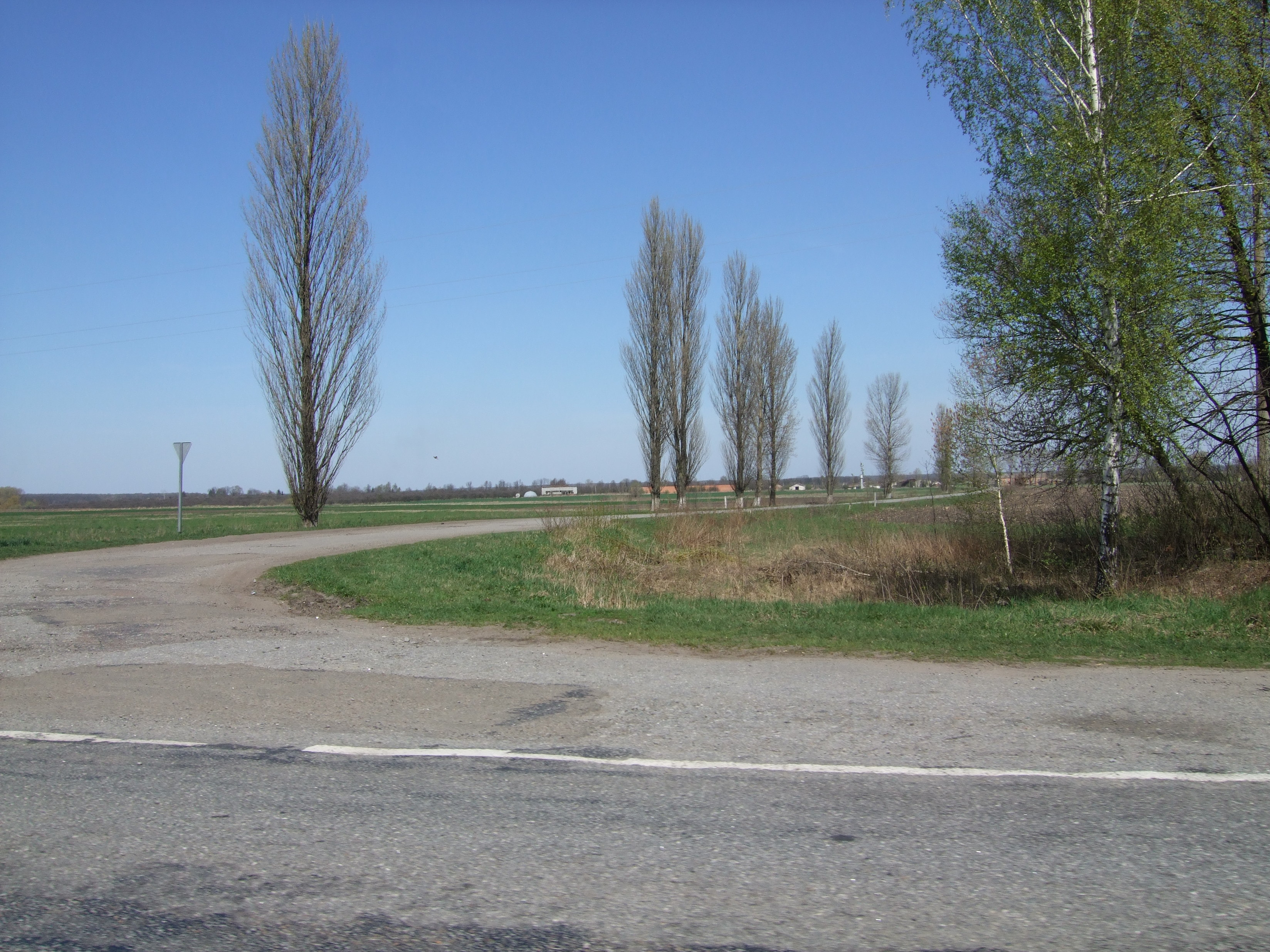 Road to Buriaky, Berdychiv Raion, Zhytomyr Oblast, Ukraine